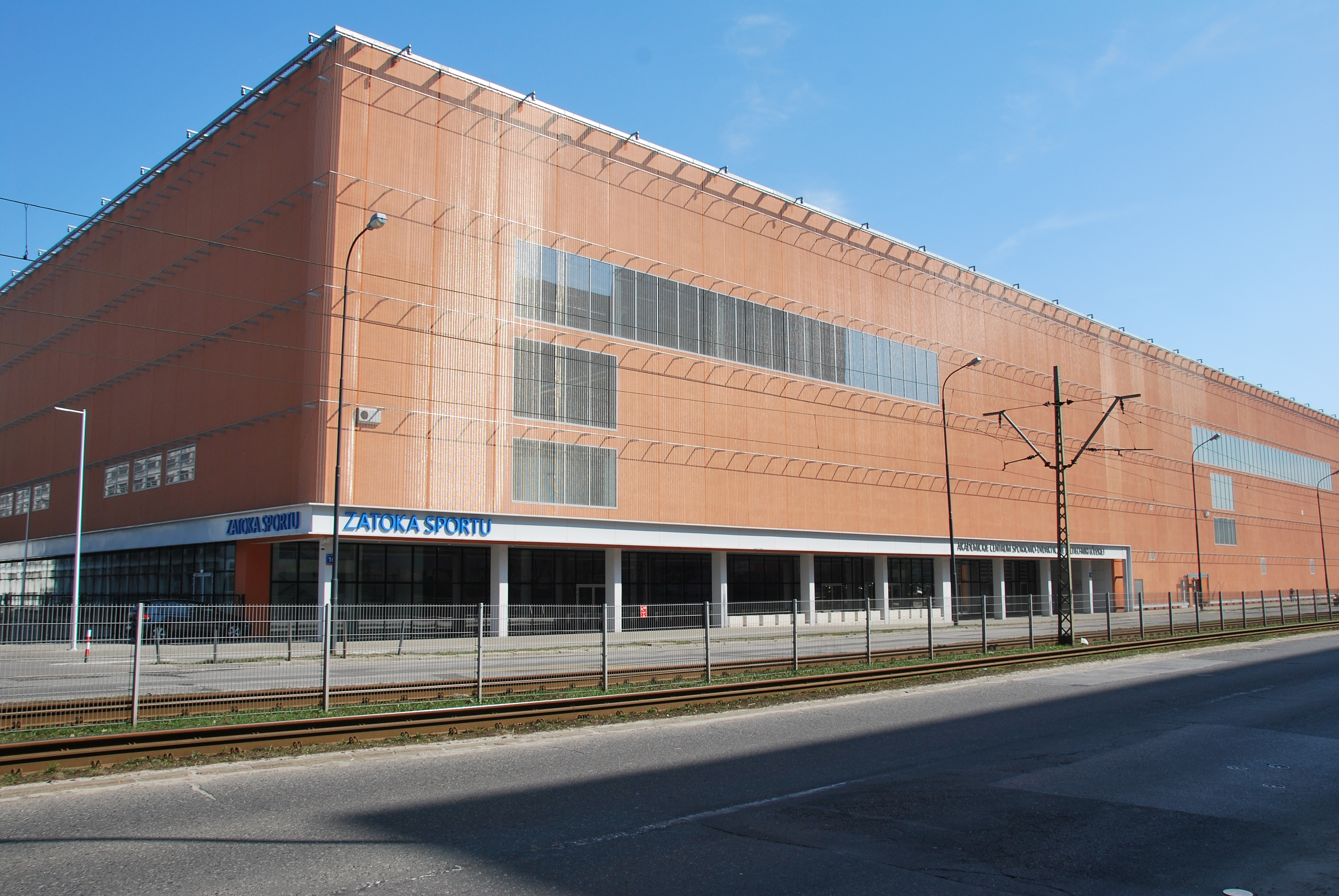 Academic Sports and Didactic Center of the Lodz University of Technology 'Zatoka Sportu' ('Bay of Sport')